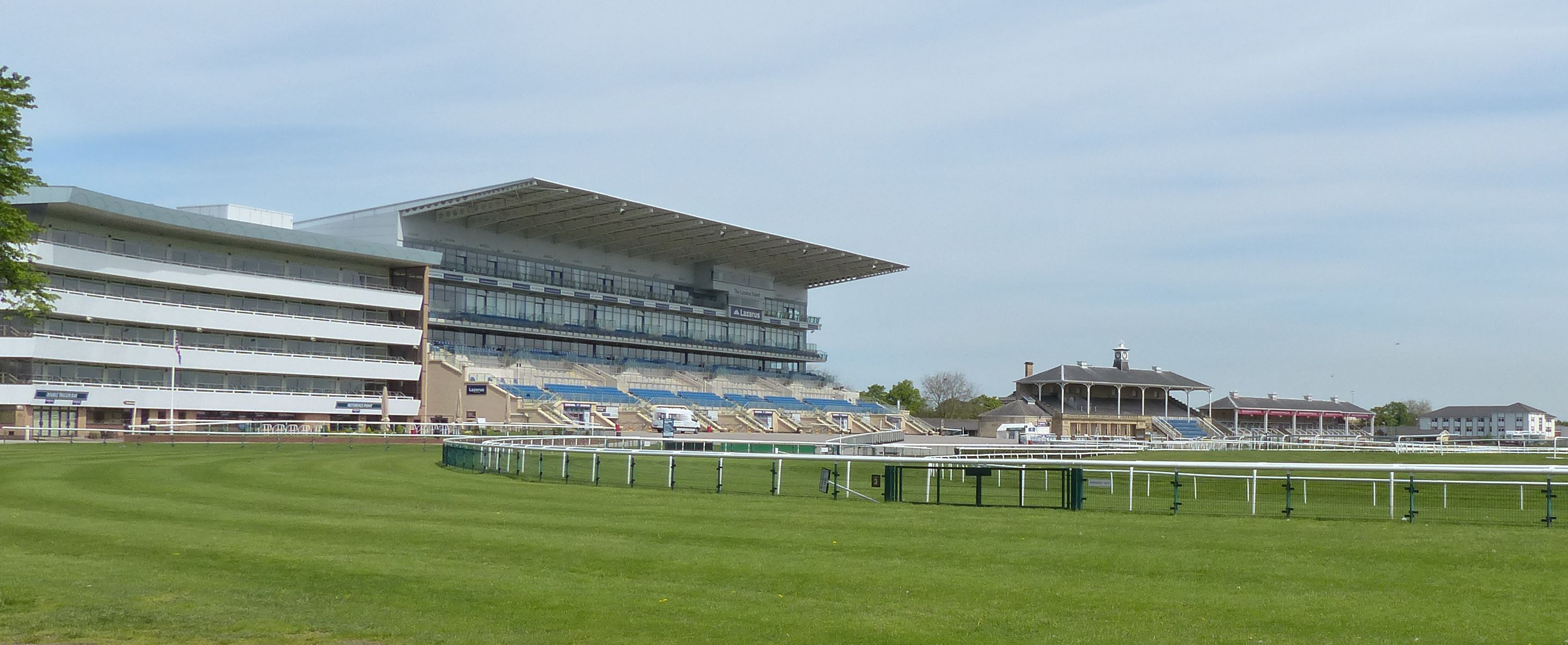 The Grandstand and racecourse at Doncaster. Home of the St. Leger.